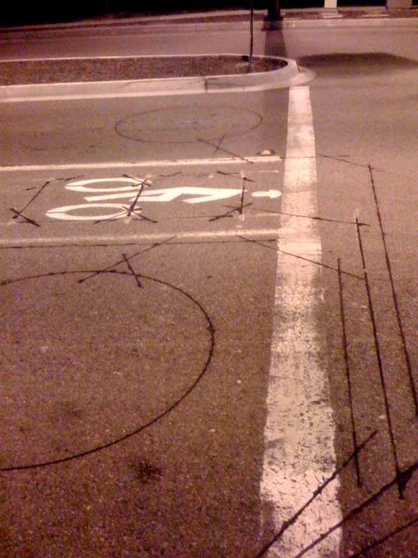 Induction loops for signal controls. Taken using iphone 2g in Irvine, California.